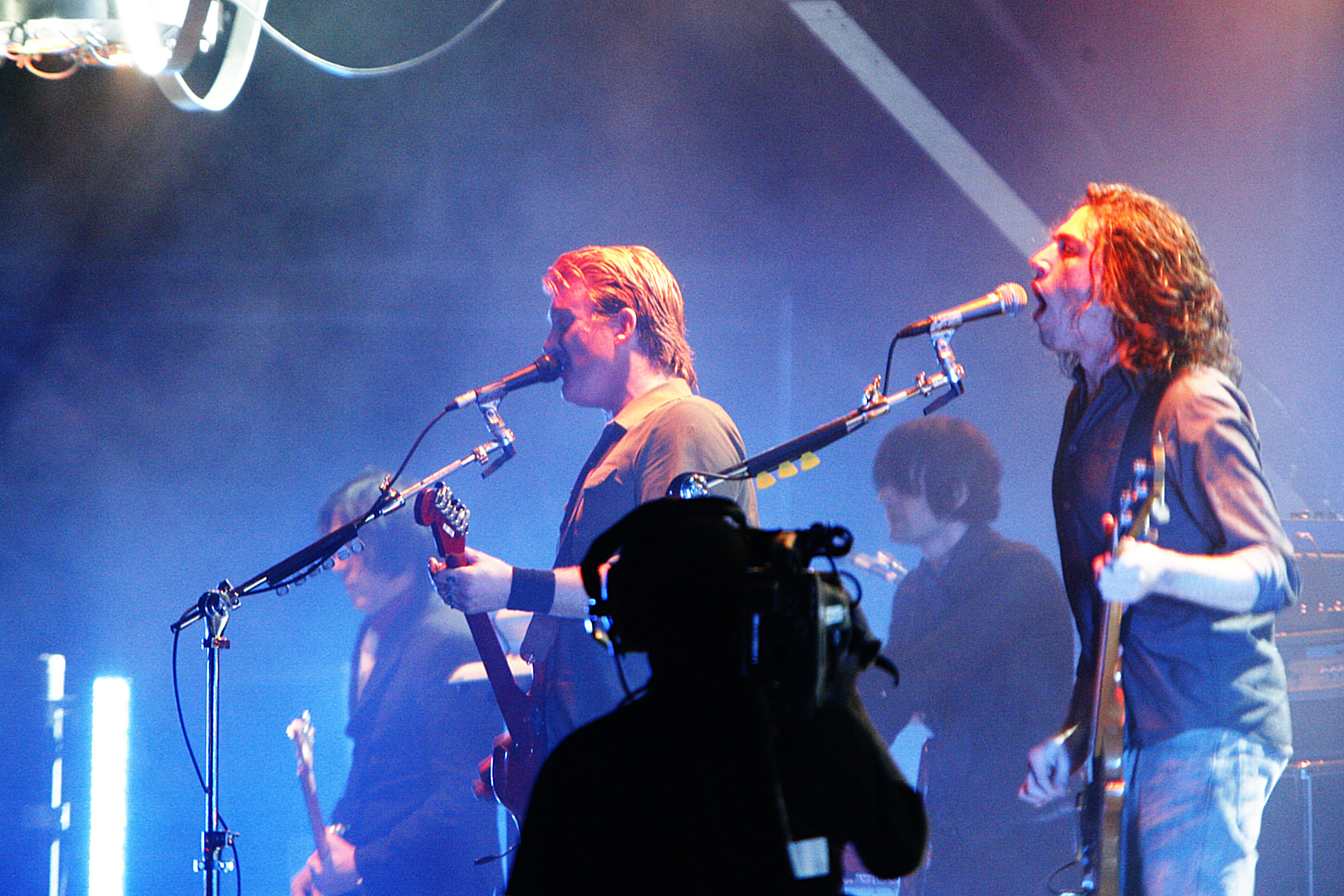 Queens of the Stone Age at the Eurockéennes of 2007